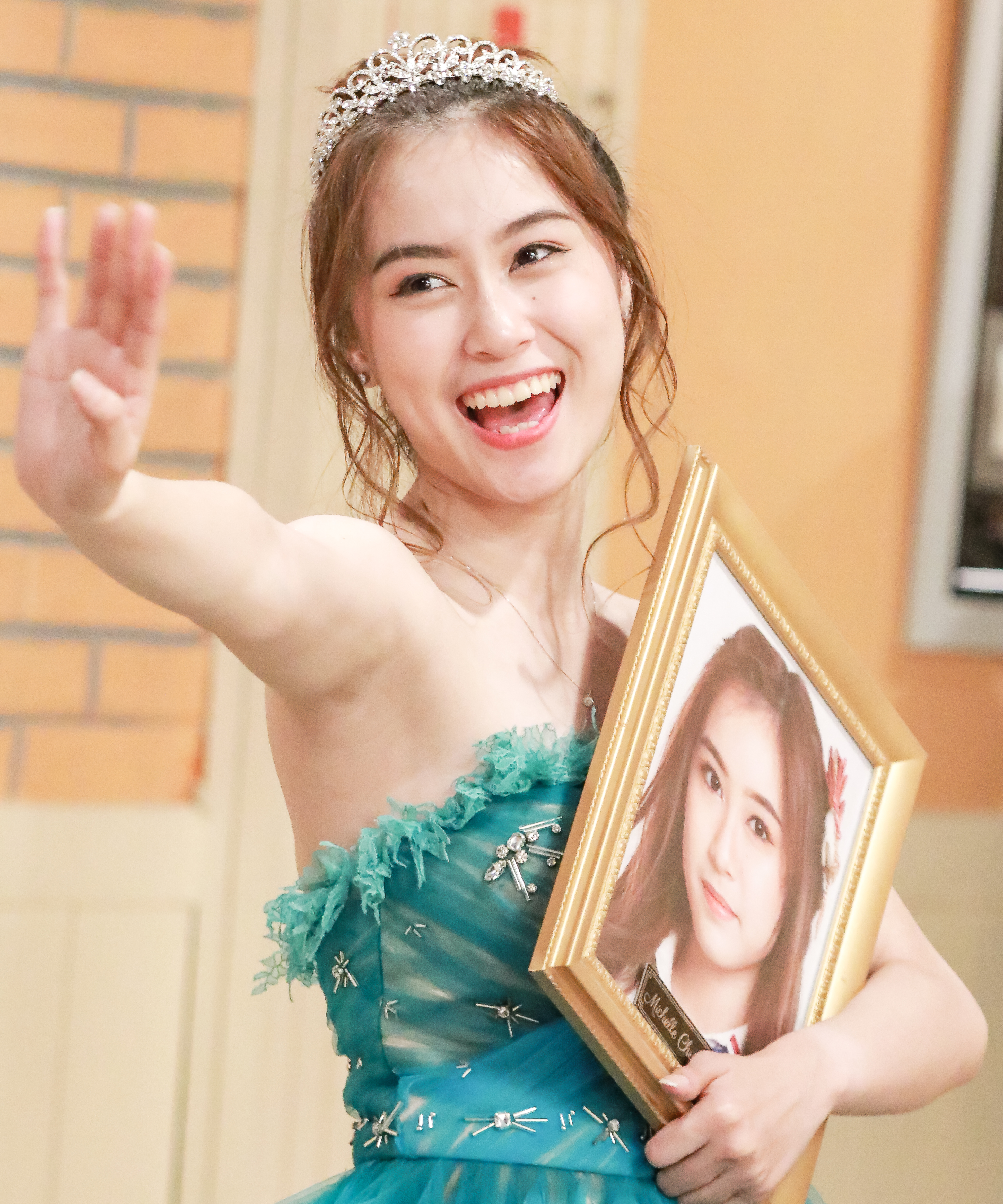 Michelle Christo Kusnadi on 18 January 2020.